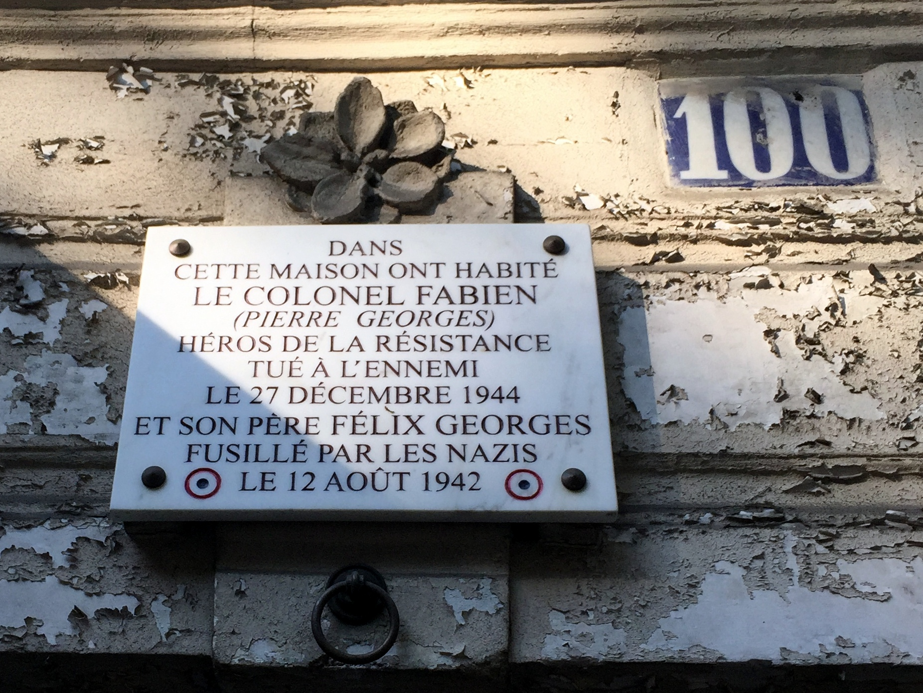 This photograph was taken with an iPhone 6